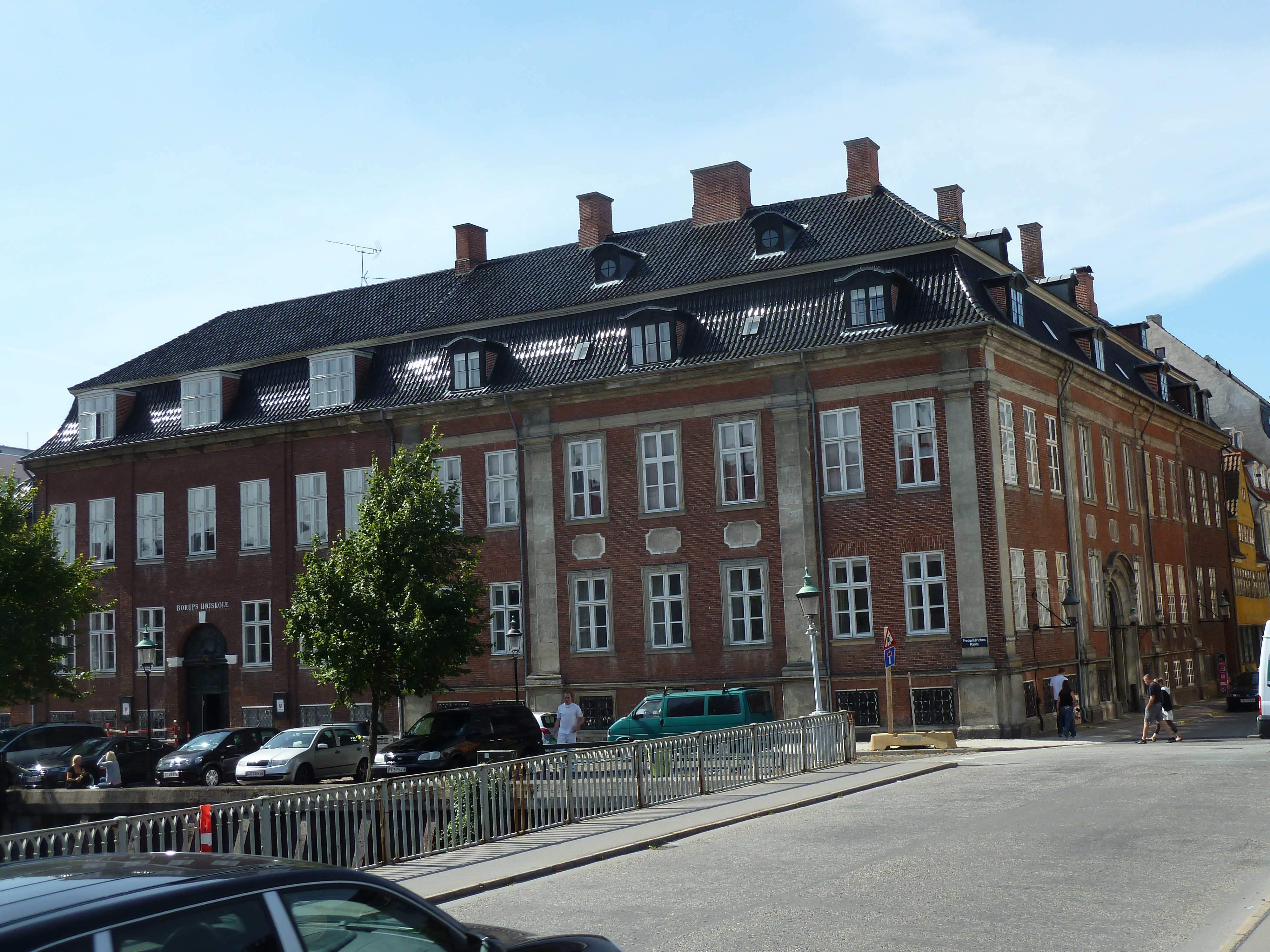 Barchmanns Palæ seen from Prinsens Bro in Copenhagen, Denmark